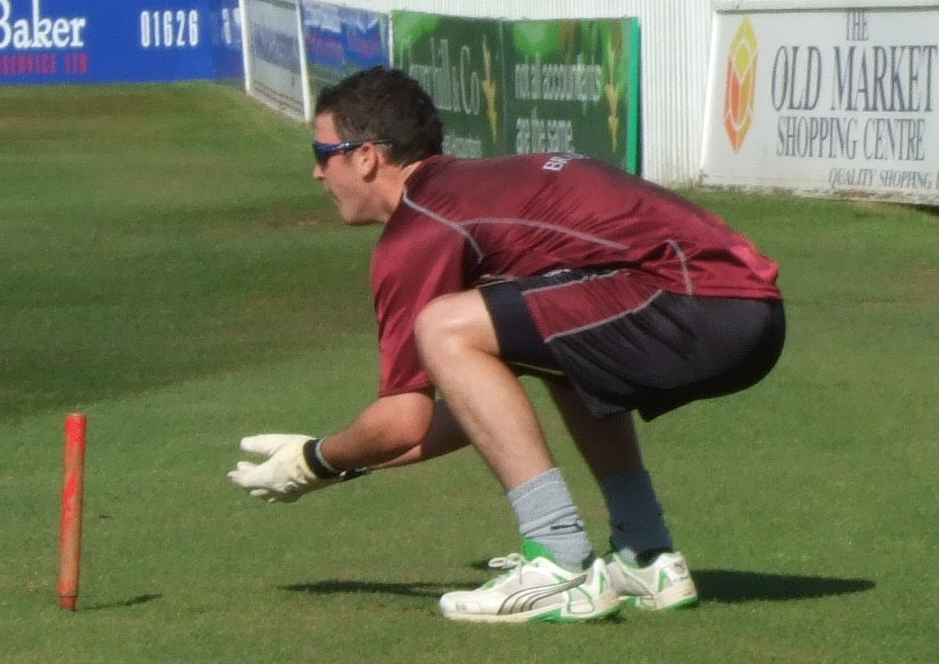 Craig Kieswetter practising his wicket-keeping skills prior to a match at Taunton.